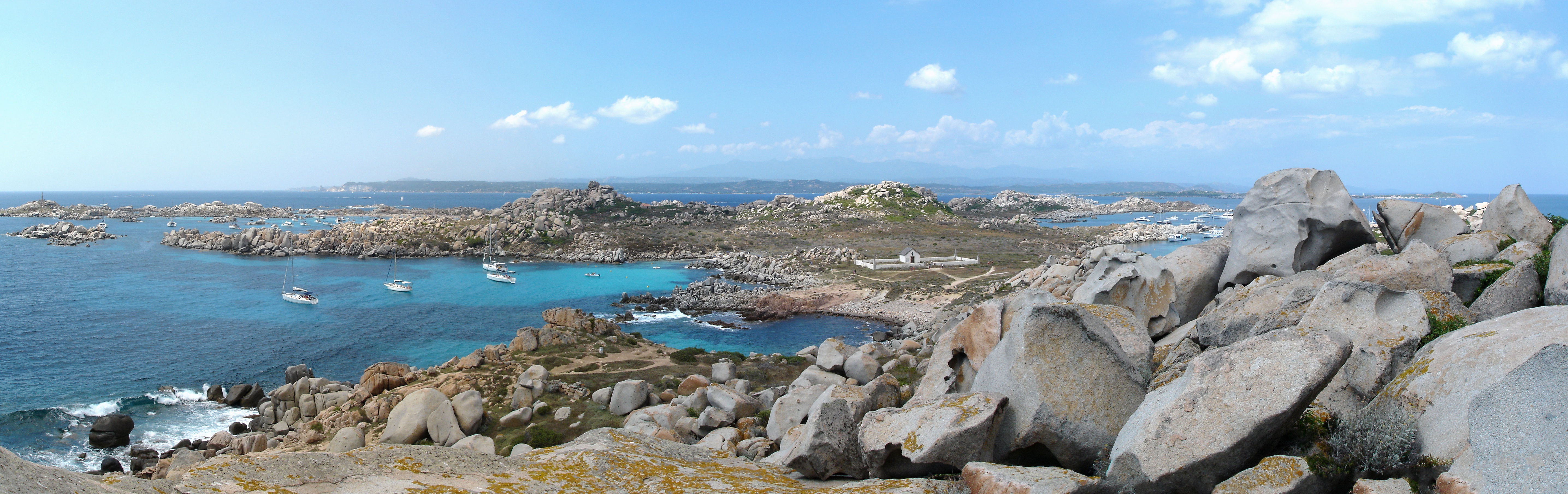 Panorama of Lavezzo, the southernmost island in the Lavezzi archipelago, southwest of Bonifacio (Corse-du-Sud). This is also the southernmost place of mainland France. The white cliffs of Cape Pertusato are visible on the left. The Cavallo island is visible on the right. The mountain near the top of the picture is the Cagna mountain. The cemetery near the center is one of the two cemeteries where victims of the Sémillante shipwreck were buried. There is also on the left side a granite pyramid dedicated to them.